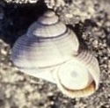 Endemic landsnail from Mauritius : subspecies from Round Island (Tropidophora fimbriata haemostoma)